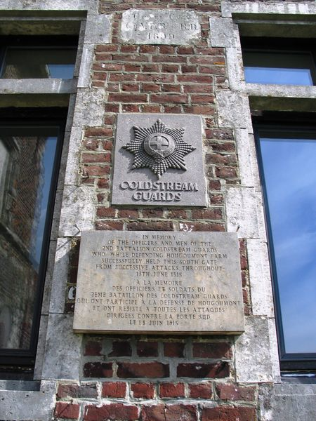 Coldstream guards at Hougoumont - own work - created by Paul Hermans